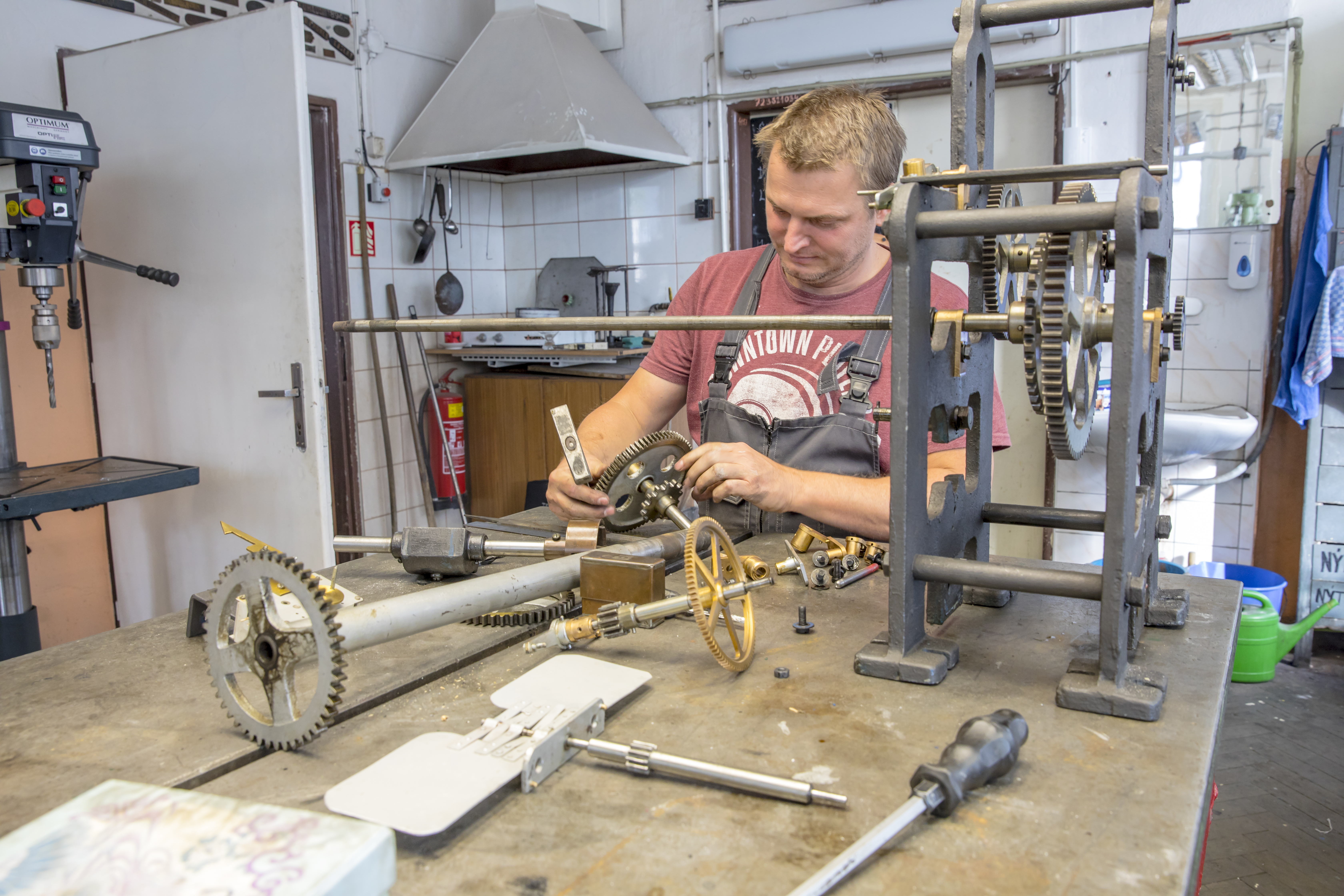 Renovation of the Old Town Hall building in 2017-2018, Prague, CZ